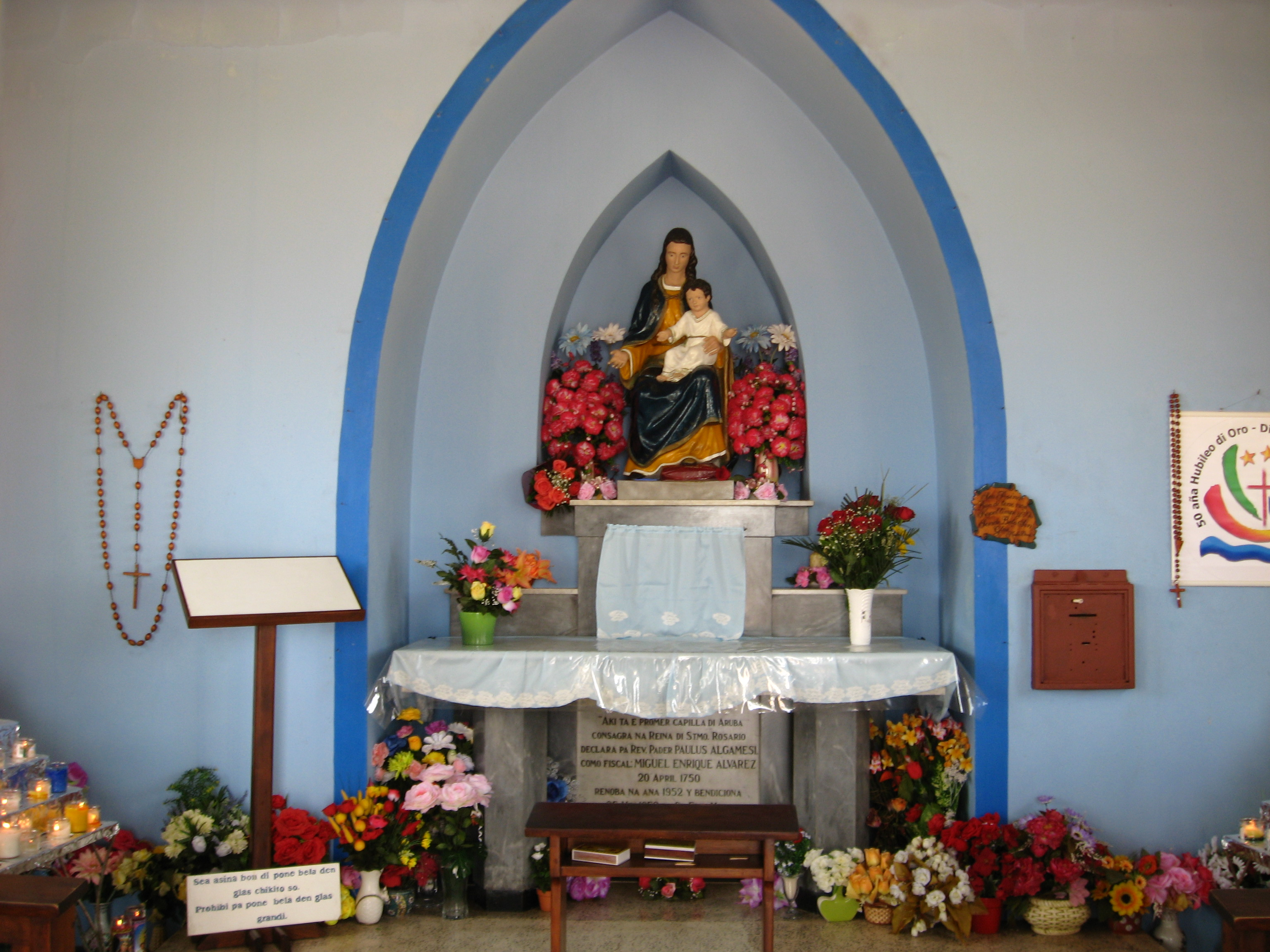 Alto Vista Chappel in Aruba